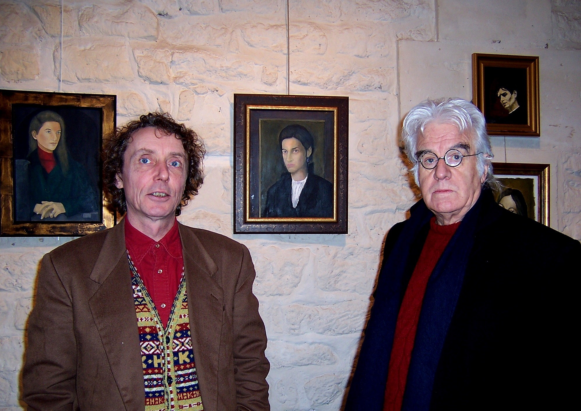 Atelier Visconti Paris. Reginald Gray's exhibition 2006.